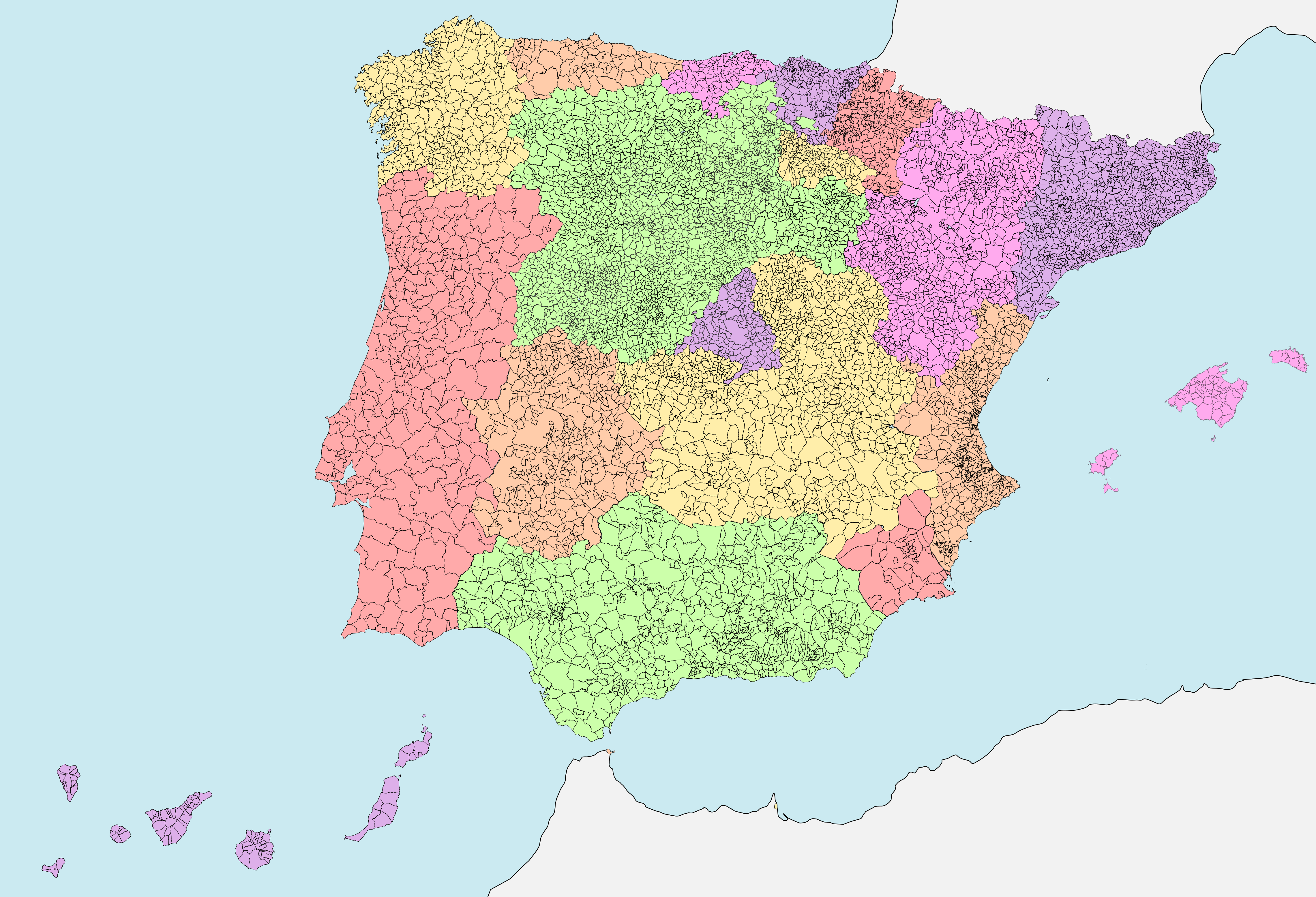 Municipal map of Spain and Portugal